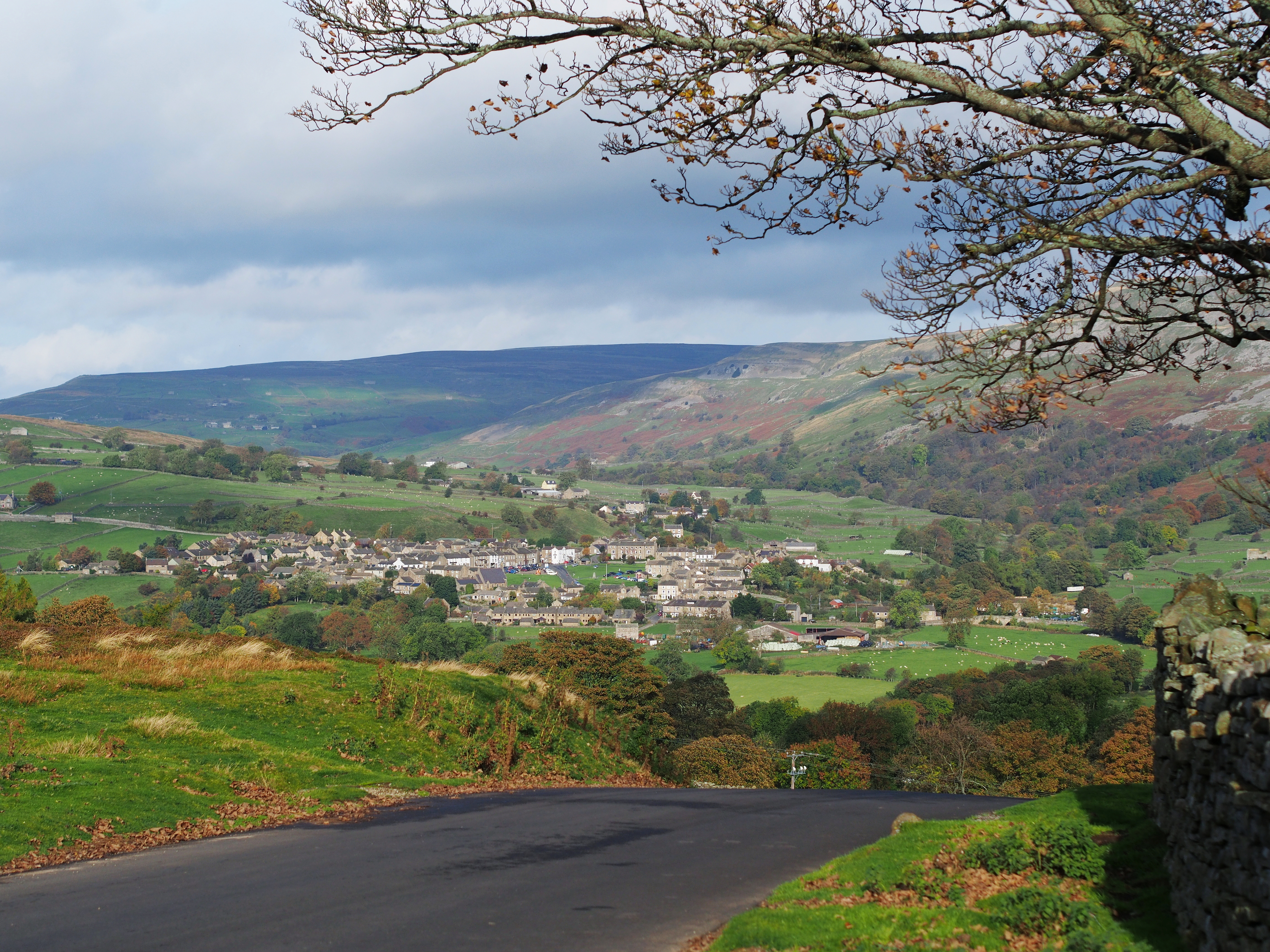 Reeth, Swaledale, seen from Grinton Lodge, looking towards Arkengarthdale